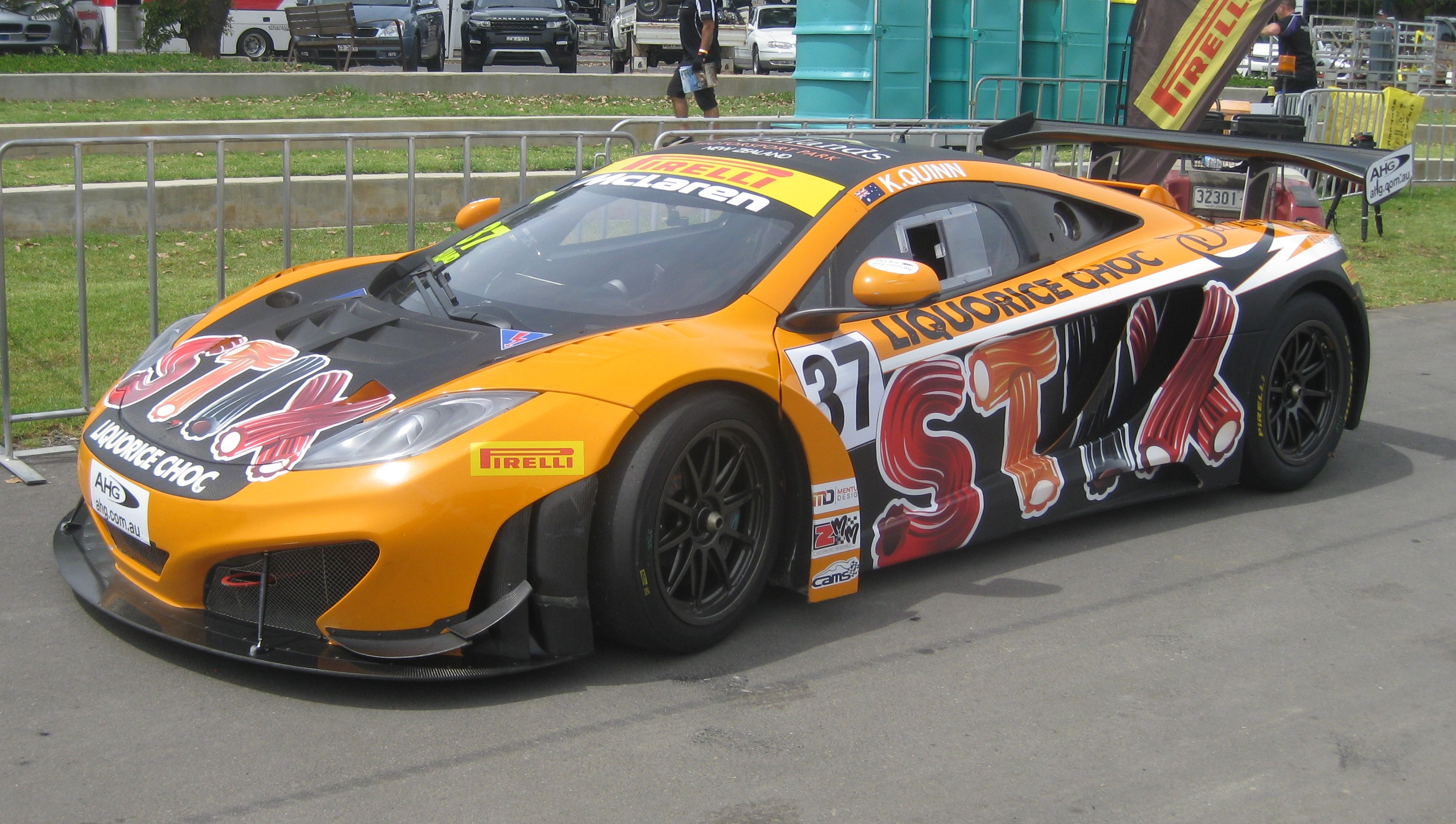 McLaren MP4-12C of Klark Quinn at the opening round of the 2015 Australian GT Championship